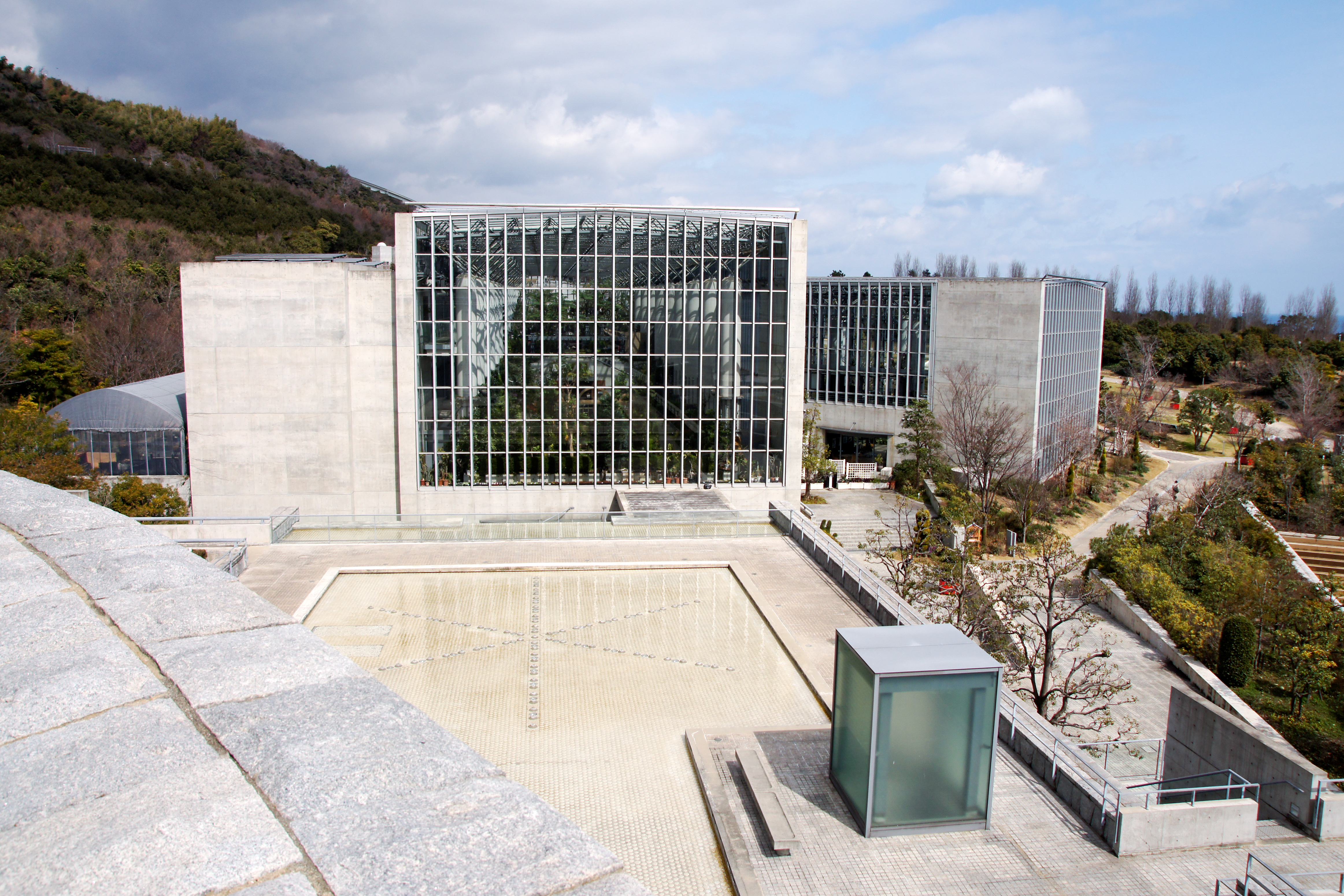 Miracle Planet Museum of Plants of Awaji Yumebutai in Awaji, Hyogo prefecture, Japan